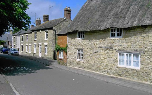 High Street, Potterspury 2007 A view of what was once the commercial hub of the village. The 17th century thatched house was once the village post office, wheelwright's, and undertaker's, while the early 19th century building next door was the village bakery until the early 1960s.